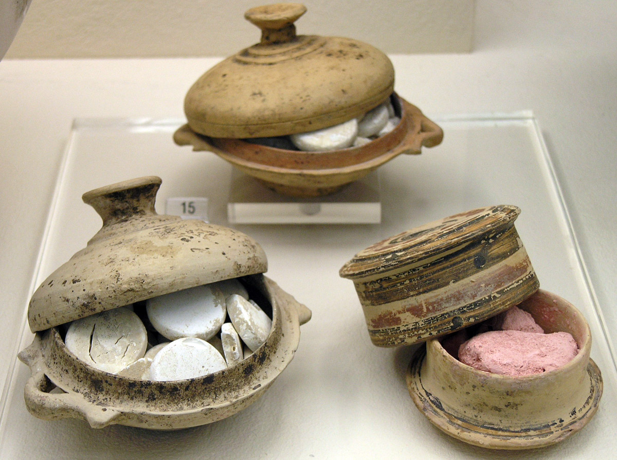 Bowls with lid, for keeping talblets of make up powder, and a Corinthian pyxis, found in a tomb from the 5th c. BC.